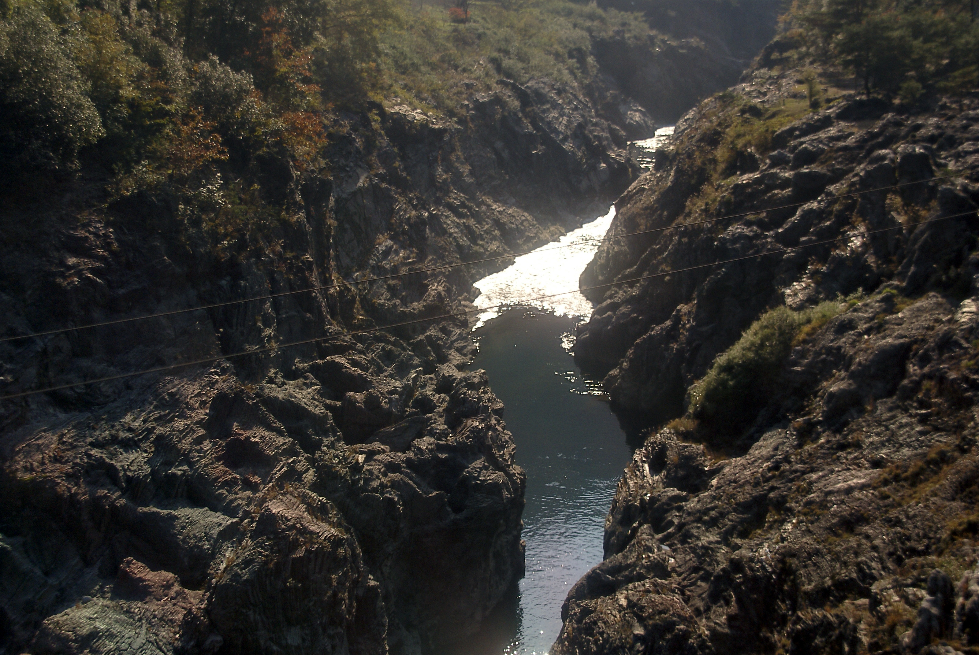 Hisuikyo at Shirakawa-cho, Gifu prefecture, Japan